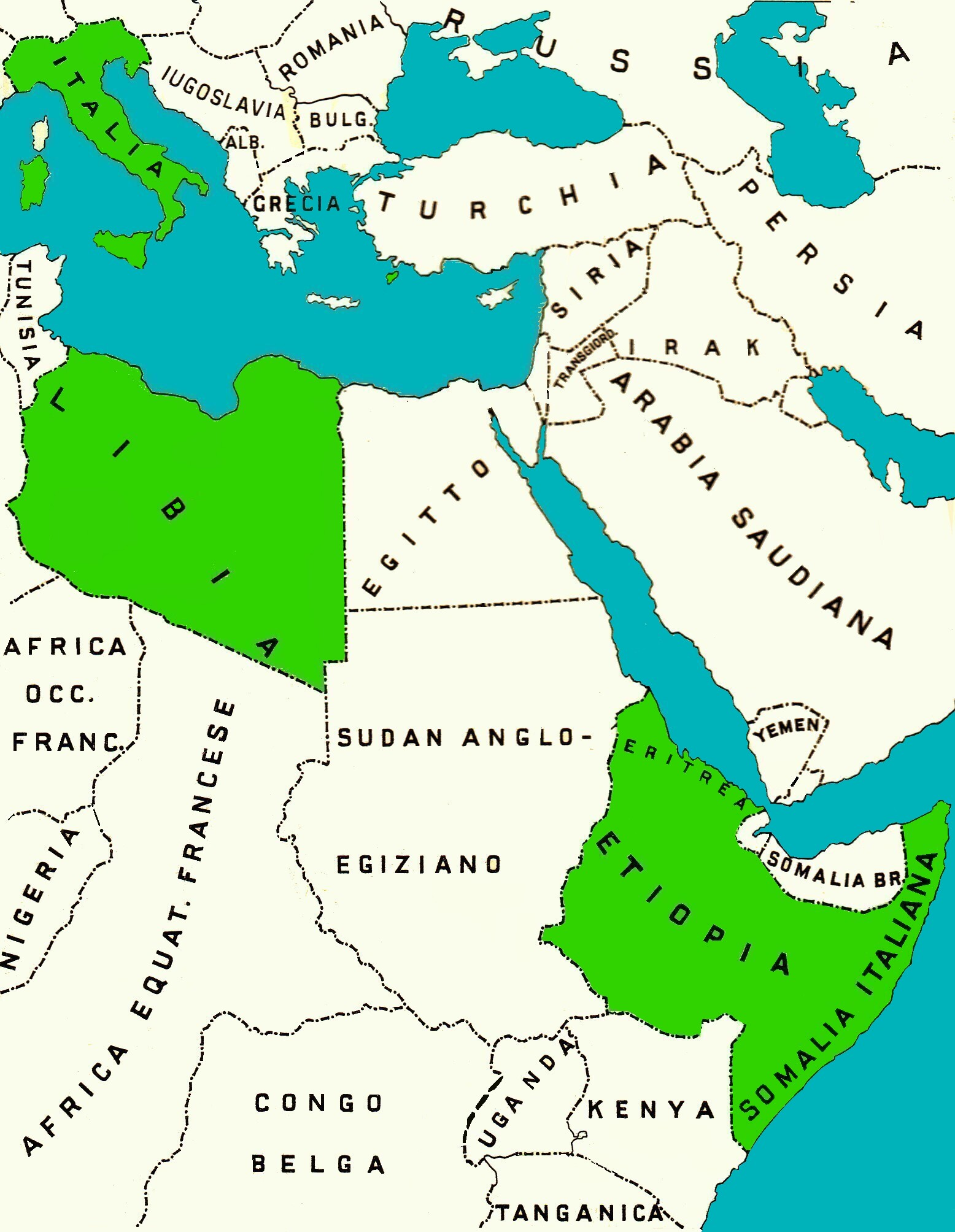 Map of the Italian colonies in January 1939